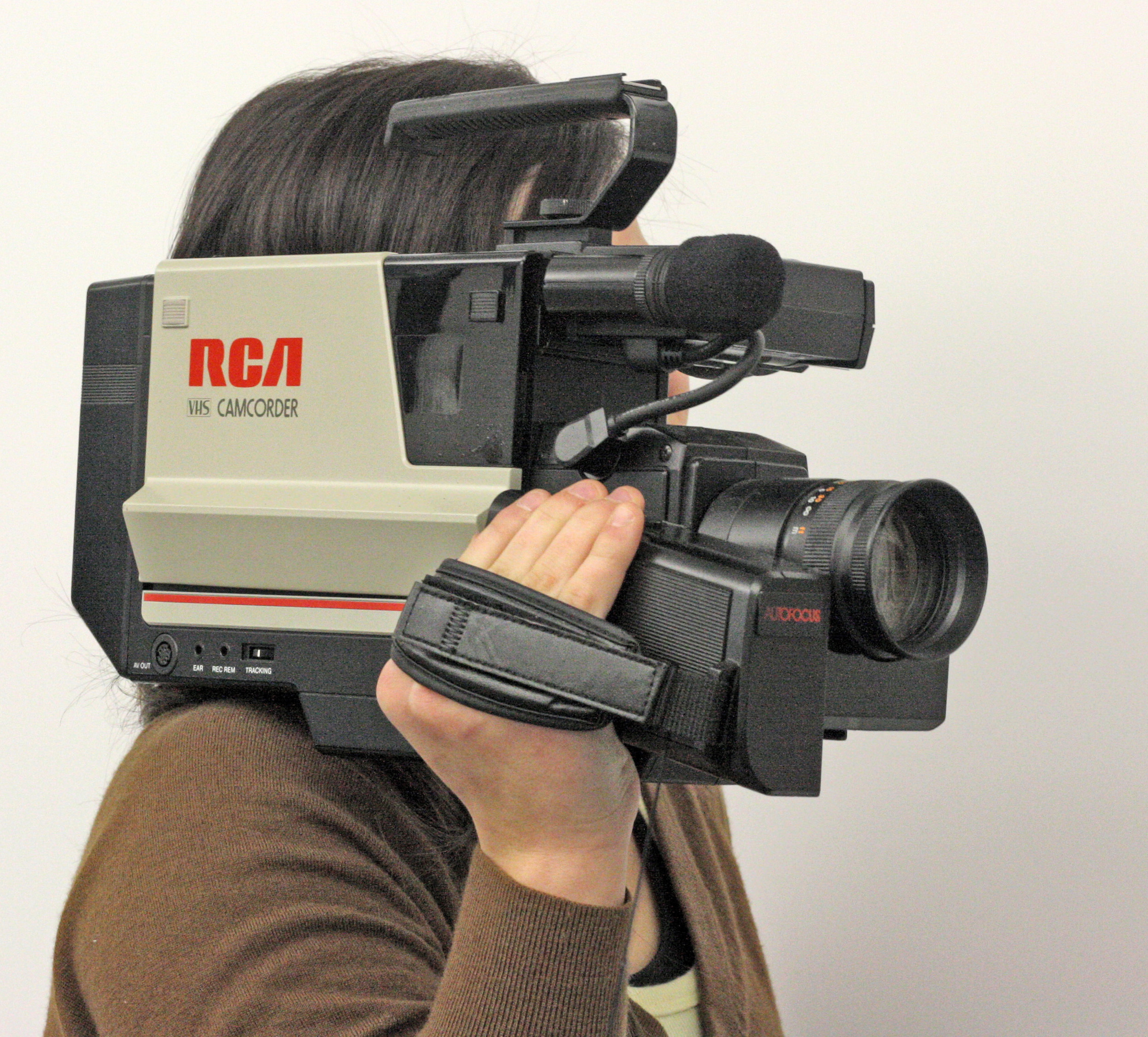 This is a picture of an old school shoulder-mount RCA Camcorder